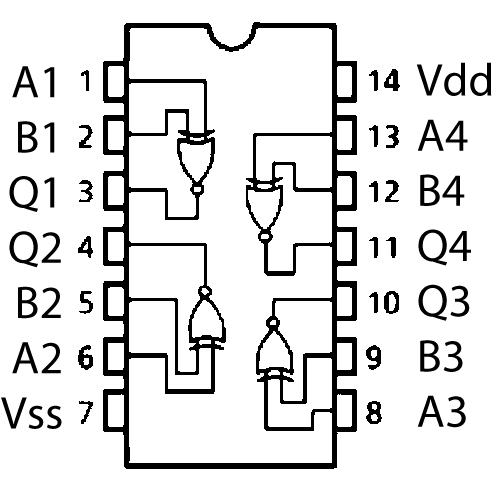 2006-05-29T07:45:52Z Bkell ( :en:User talk:Bkell|Talk | :en:Special:Contributions/Bkell|contribs ) ( badJPEG ) *2005-12-25T05:08:24Z :en:User:Jjbeard|Jjbeard ( :en:User talk:Jjbeard|Talk | :en:Special:Contributions/Jjbeard|contribs )